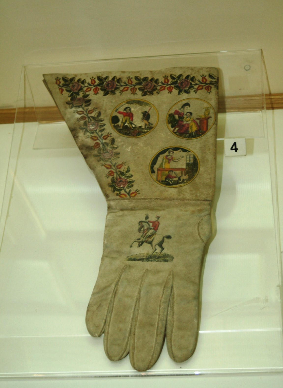 Hunting glove of Jafarqulu Khan Nakhchivanski